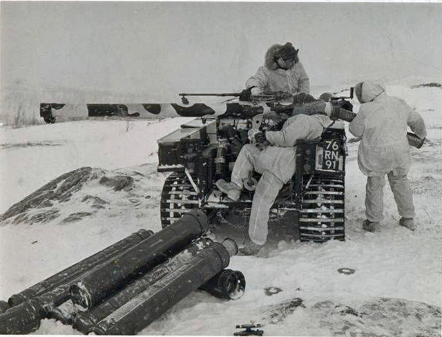 L6 WOMBAT anti-tank weapon mounted on an Aktiv Snow Trac utilized by the British Royal Marines in Norway on a training mission in 1975. The combination of the L6 WOMBAT and the Snow Trac made for a light weapons platform that was heliotransportable into remote locations for patrols during the Cold War era.